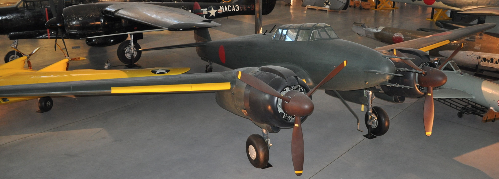 Nakajima J1N1-S Gekko (Moonlight) Navy land based night fighter on display at the Steven F. Udvar-Hazy Center.